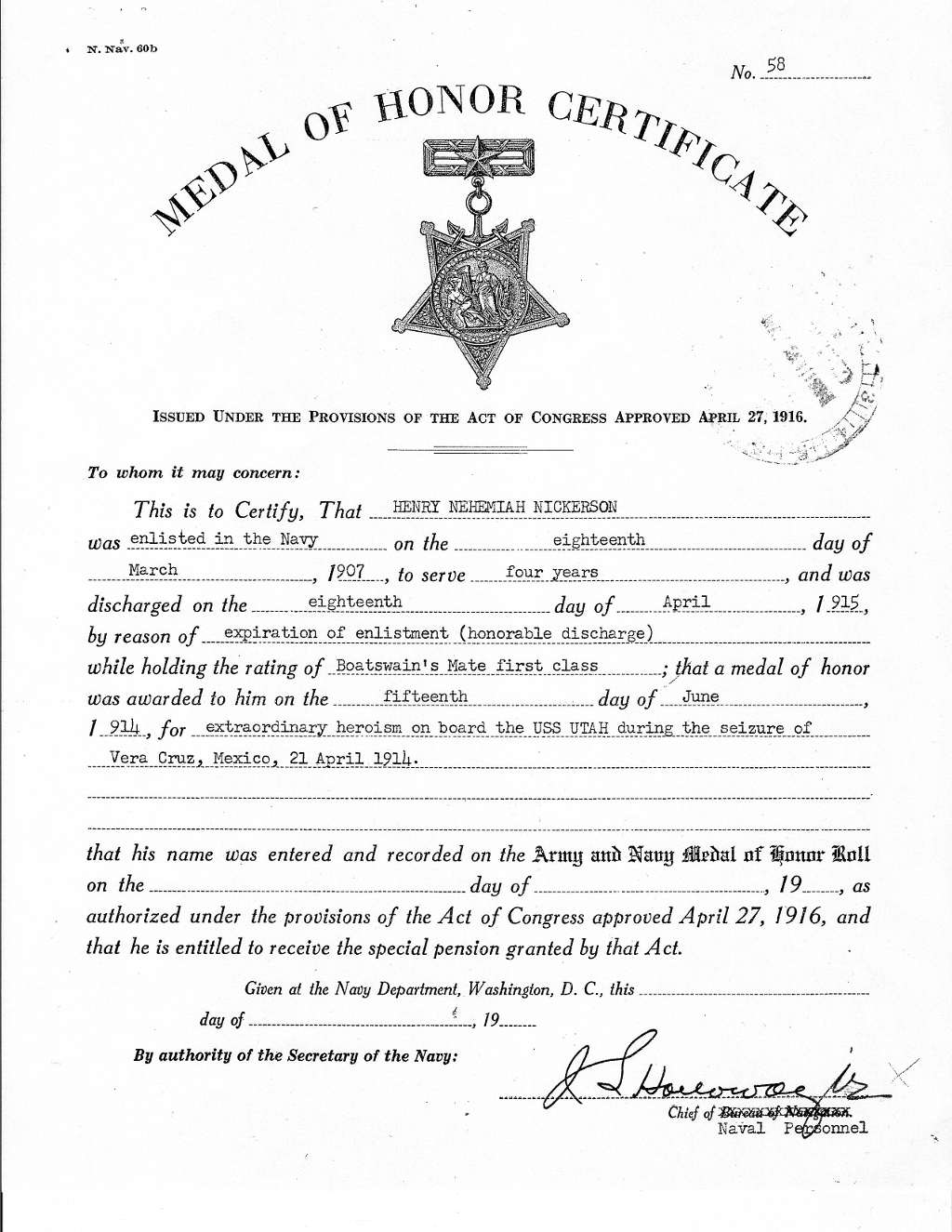 Medal Of Honor Certificate awarded to Henry Nehemiah Nickerson